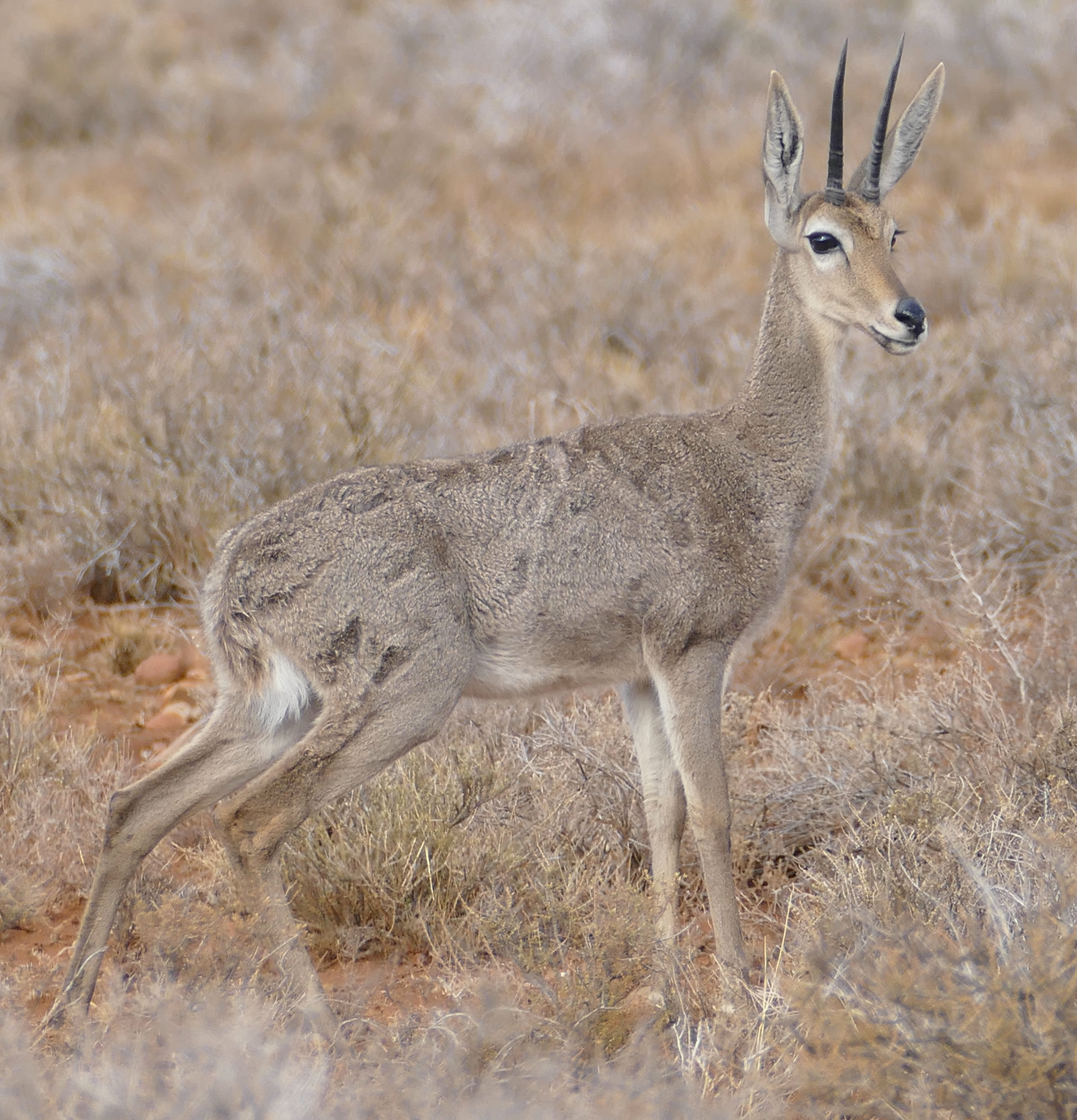 Karoo NP, Western Cape, SOUTH AFRICA